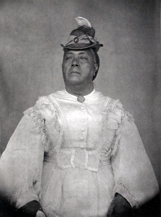 Title: Queen Charlotte, Tongataboo Friendly Islands - during the Challenger Voyage. The Voyage of H.M.S. Challenger (1872-1876) was funded by the British Government for scientific purposes and seems to have been the first expedition to carry an official photographer as well as an official artist.